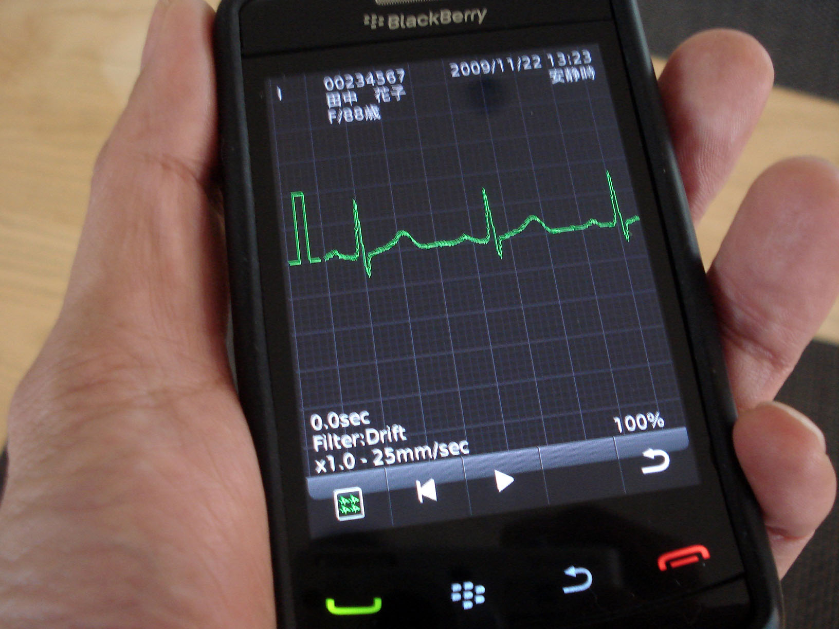 MFER (Medical waveform Format Encoding Rule) software on a Blackberry device. It displays medical waveforms such as electrocardiogram (shown), electroencephalogram, and blood pressure waveform.